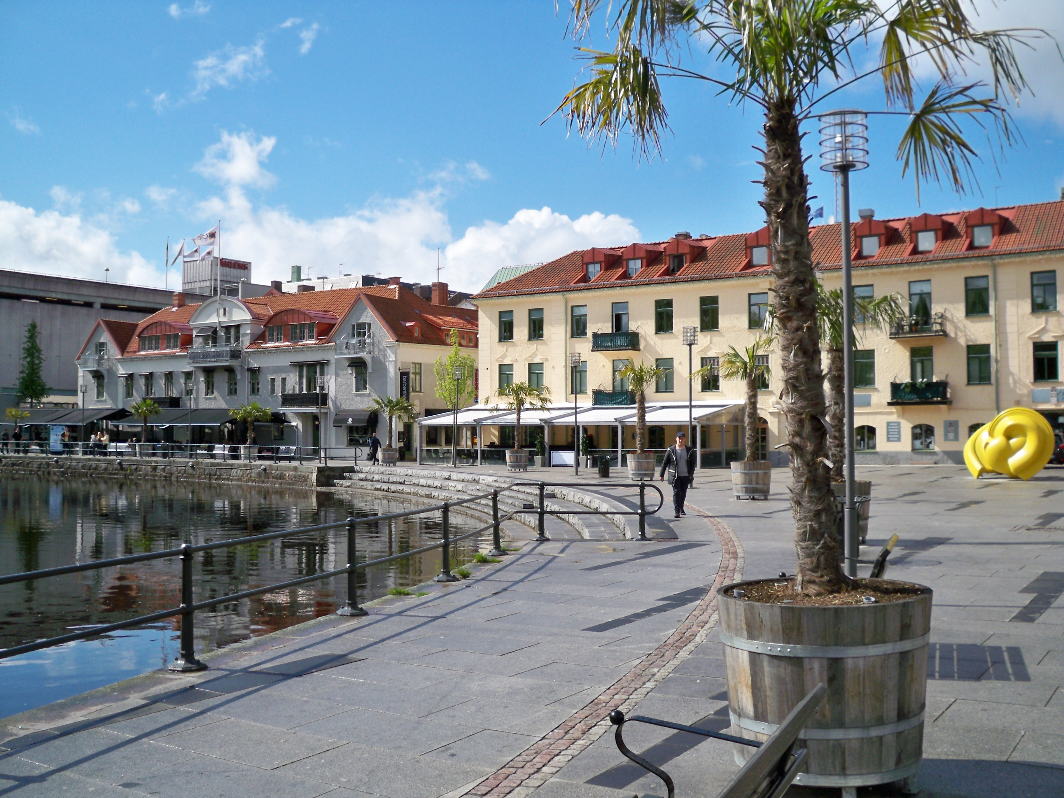 The yellow-painted outdoor bronze sculpture Declination (2004) by the British sculptor Tony Cragg on Sandwalls Plats in Borås, Sweden (since 2007)